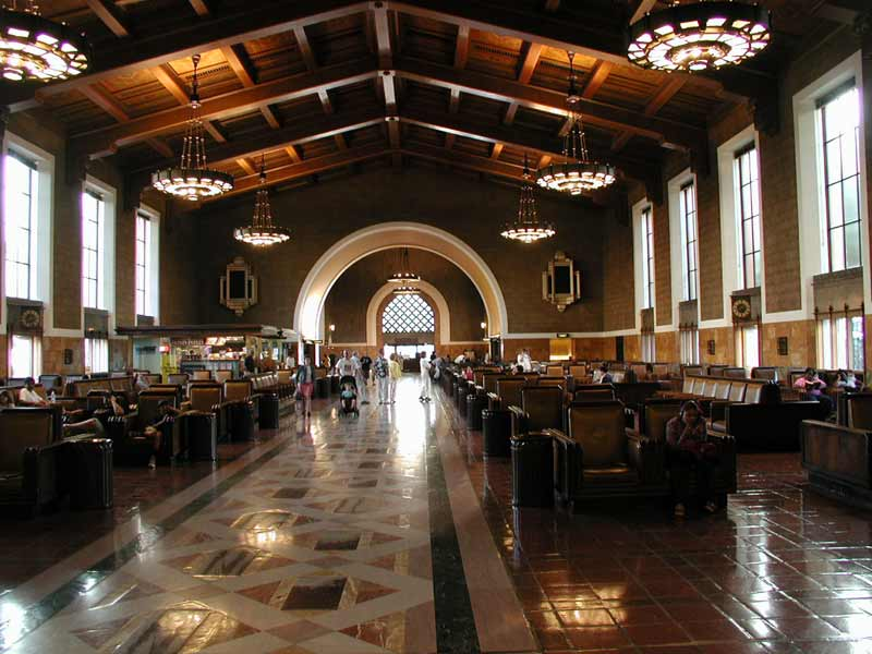 Waiting room of Union Station, Los Angeles. (Train station).